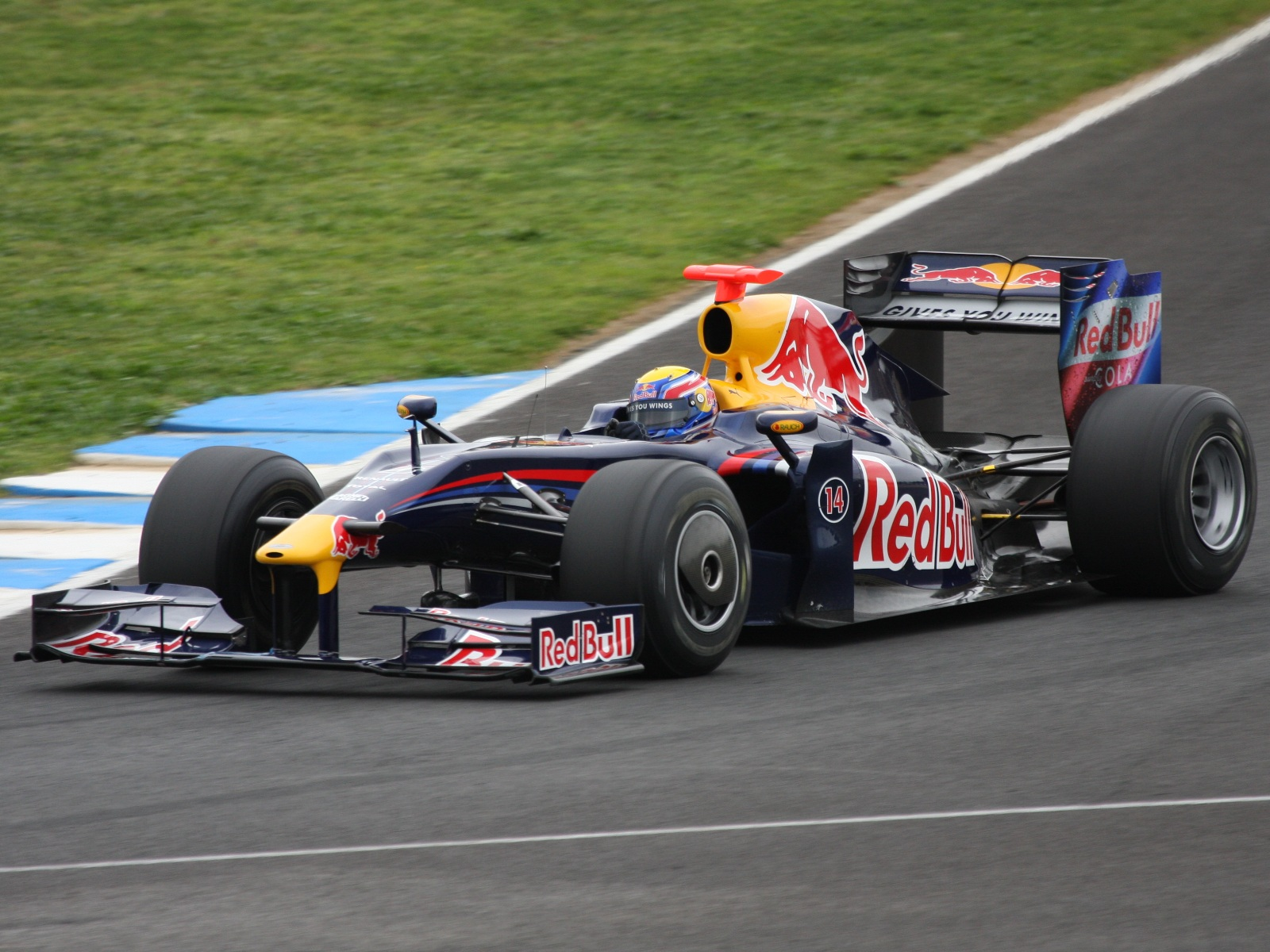 This is the image Shadow Fox trimmed the picture of File:Mark Webber Jerez Mar 2009 4330.jpg by MorganaF1.